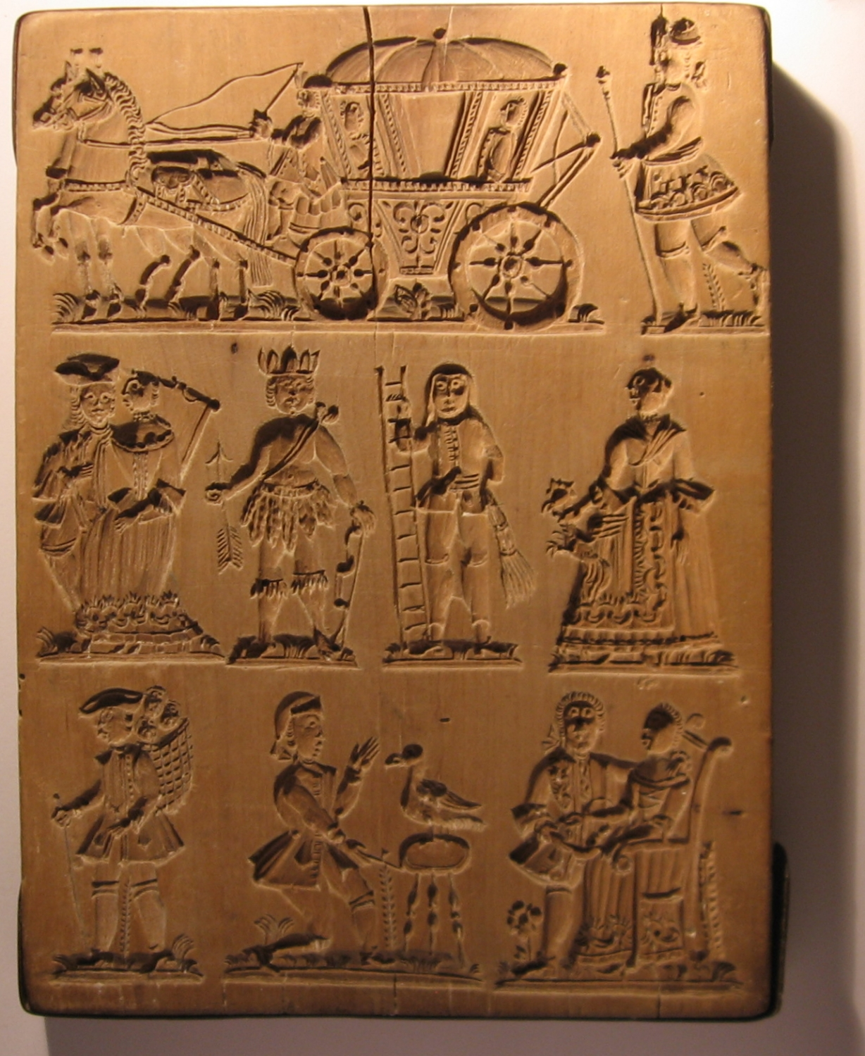 Springerle wooden mould form with rococo figures front side